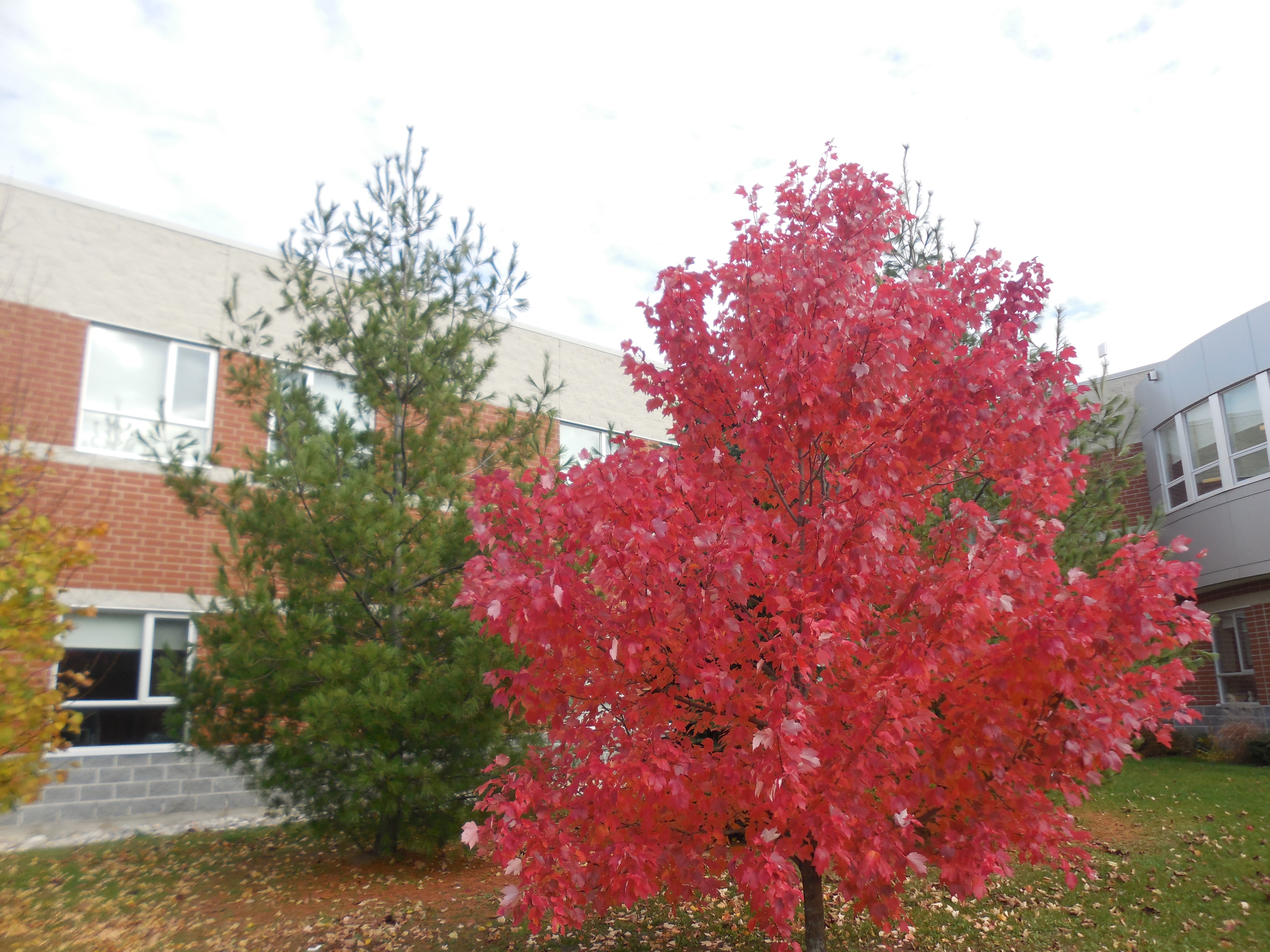 Red and green trees in spring